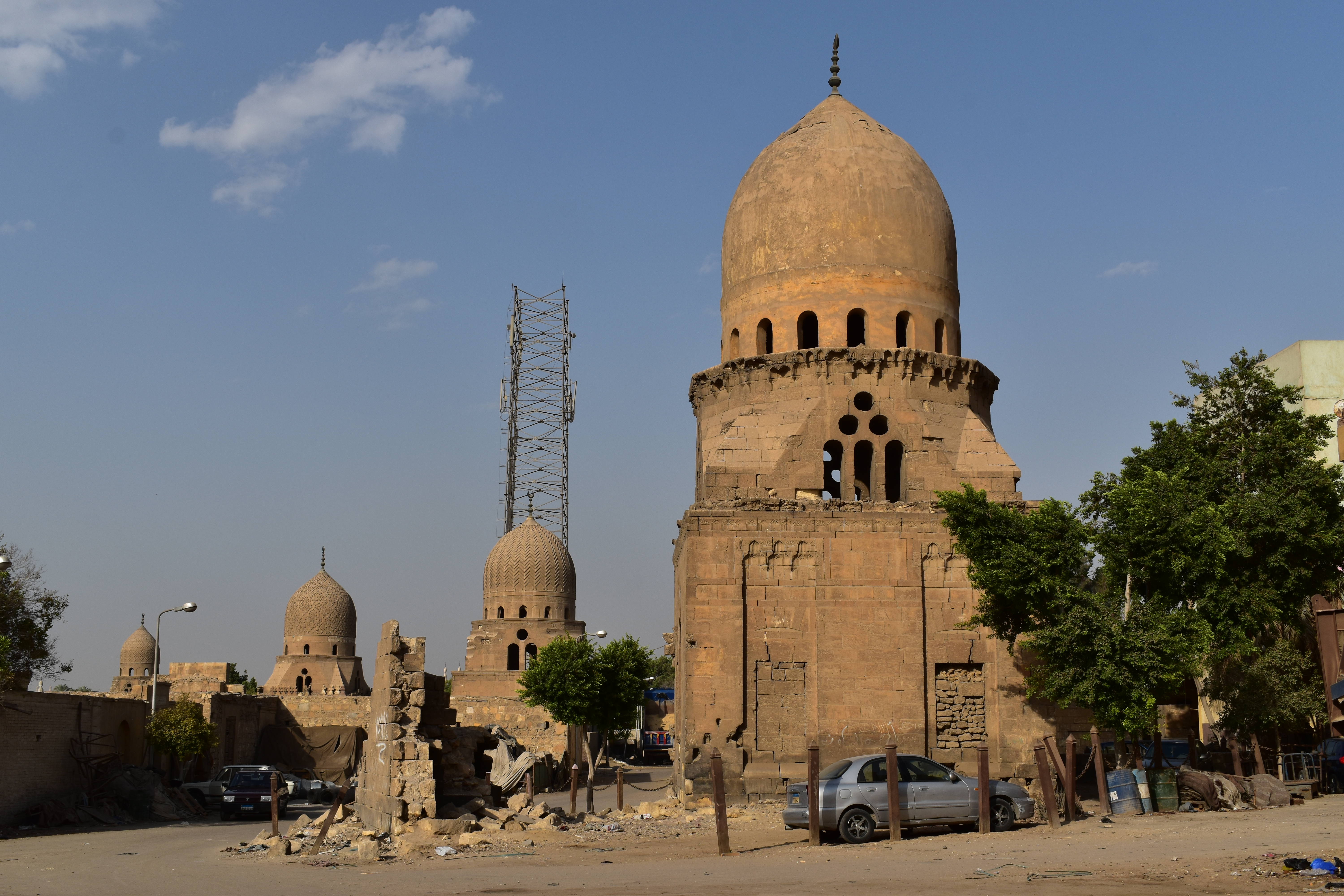 Tombs of the Mamluks, photo by Hatem Moushir